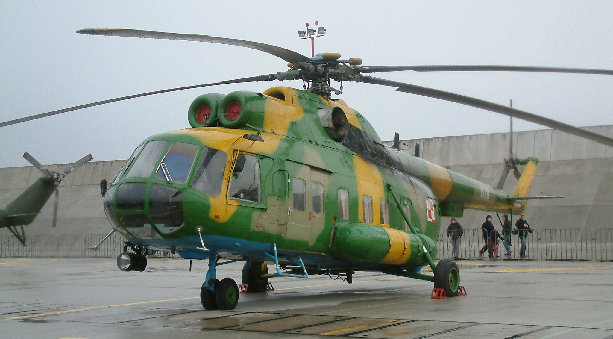 Mi-8S #619 of Polish Air Forces, 31st. Air Base Poznań-Krzesiny